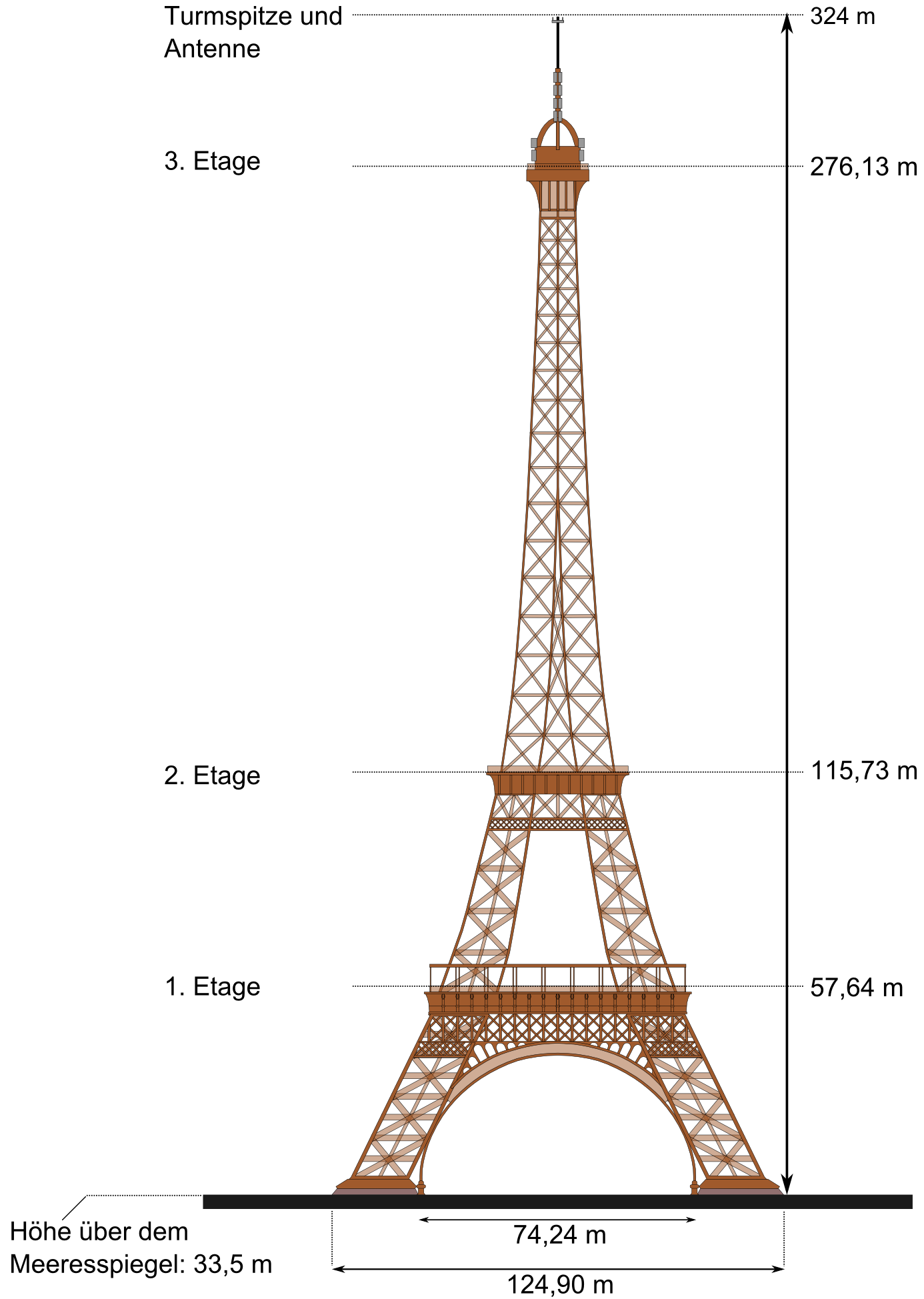 Drawing of Eiffeltower with technical data